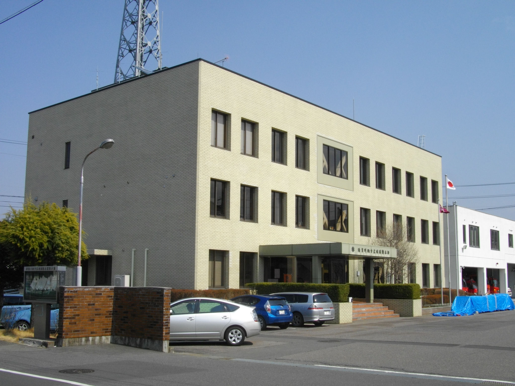 Sukagawa Fire Department